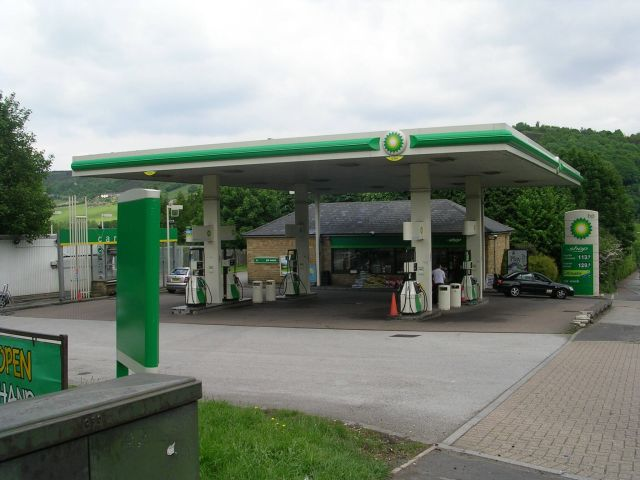 BP Filling Station - Godley Lane